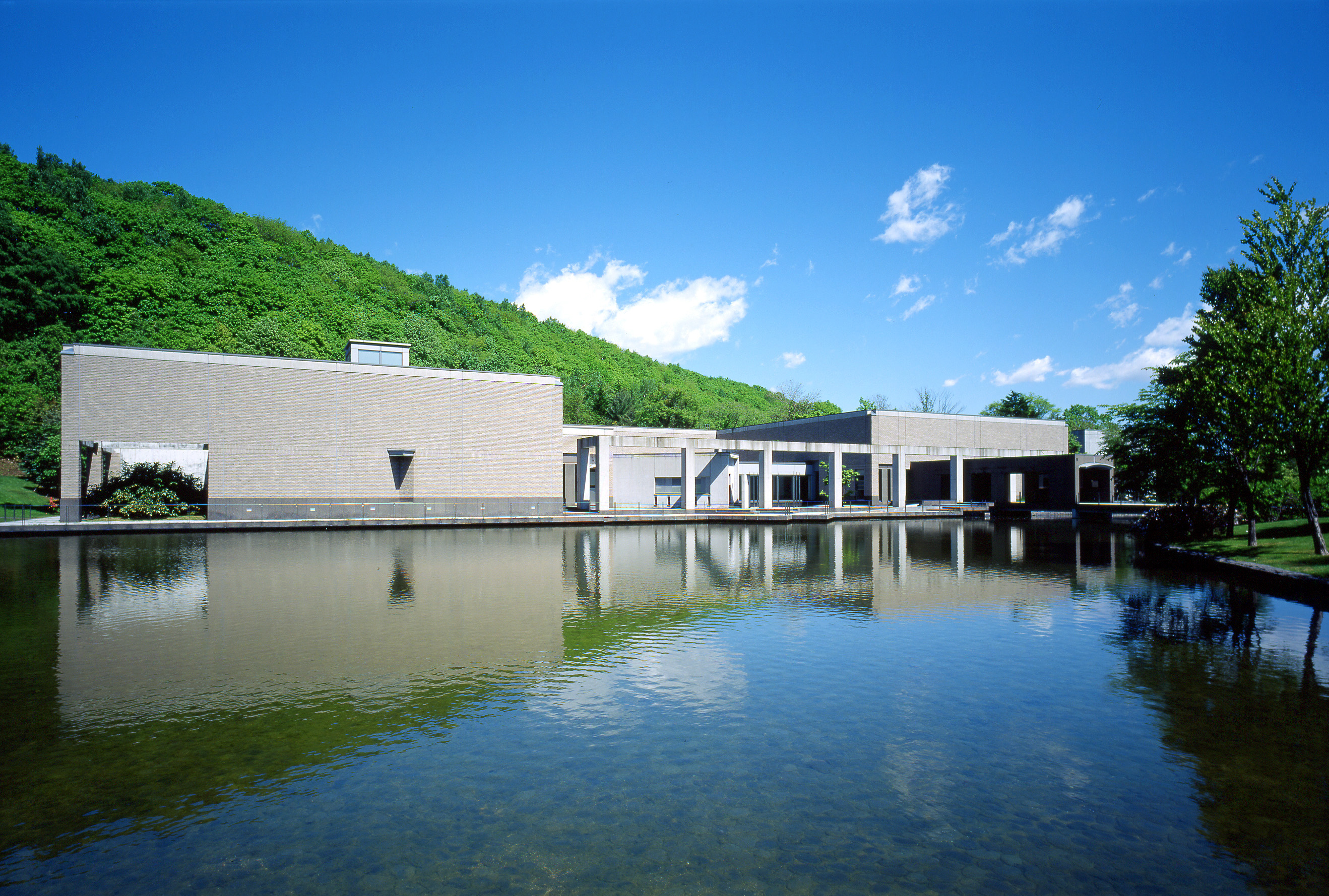 View of Sapporo Art Museum